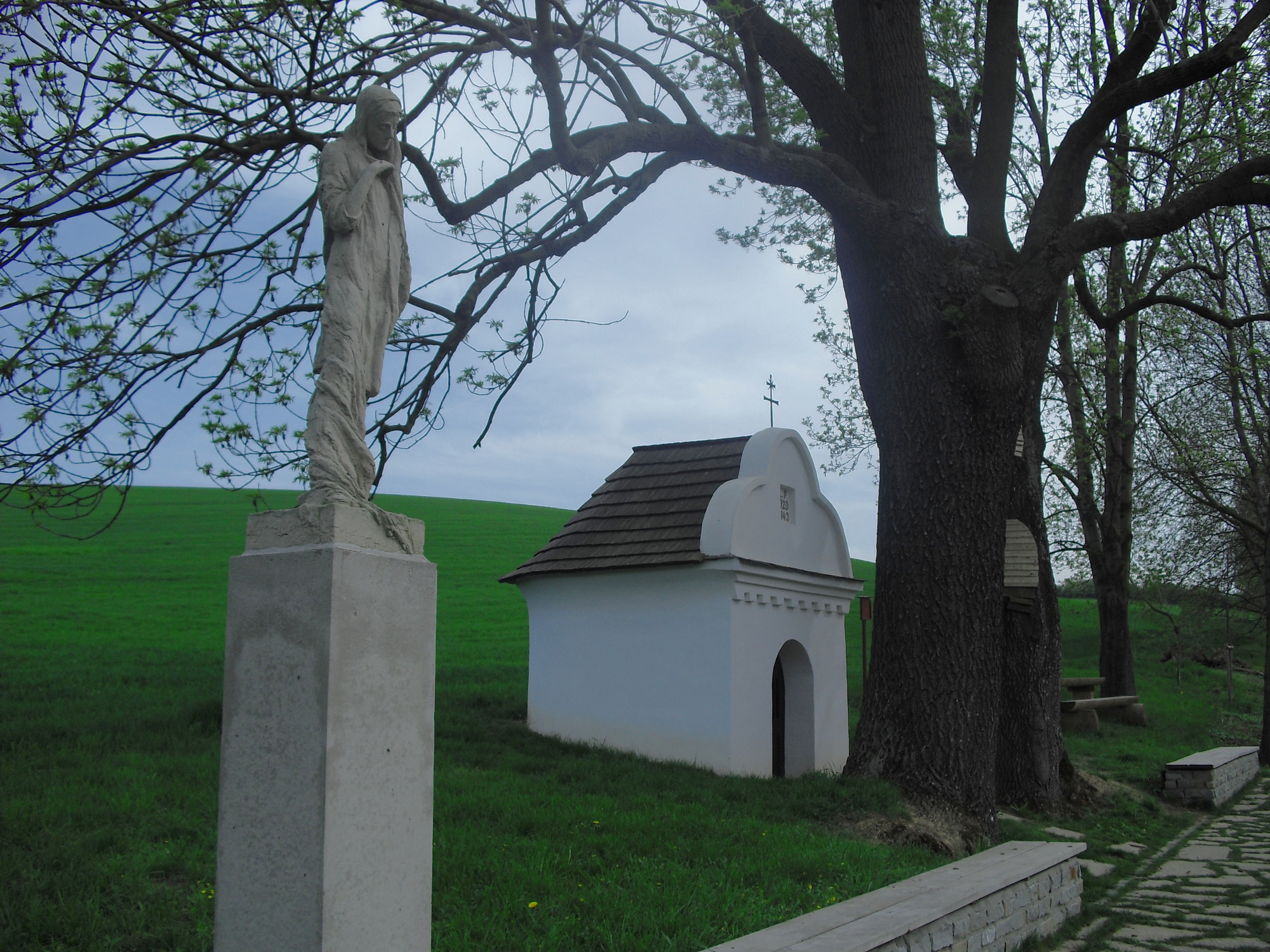 Břestek, Uherské Hradiště District, Czech Republic.